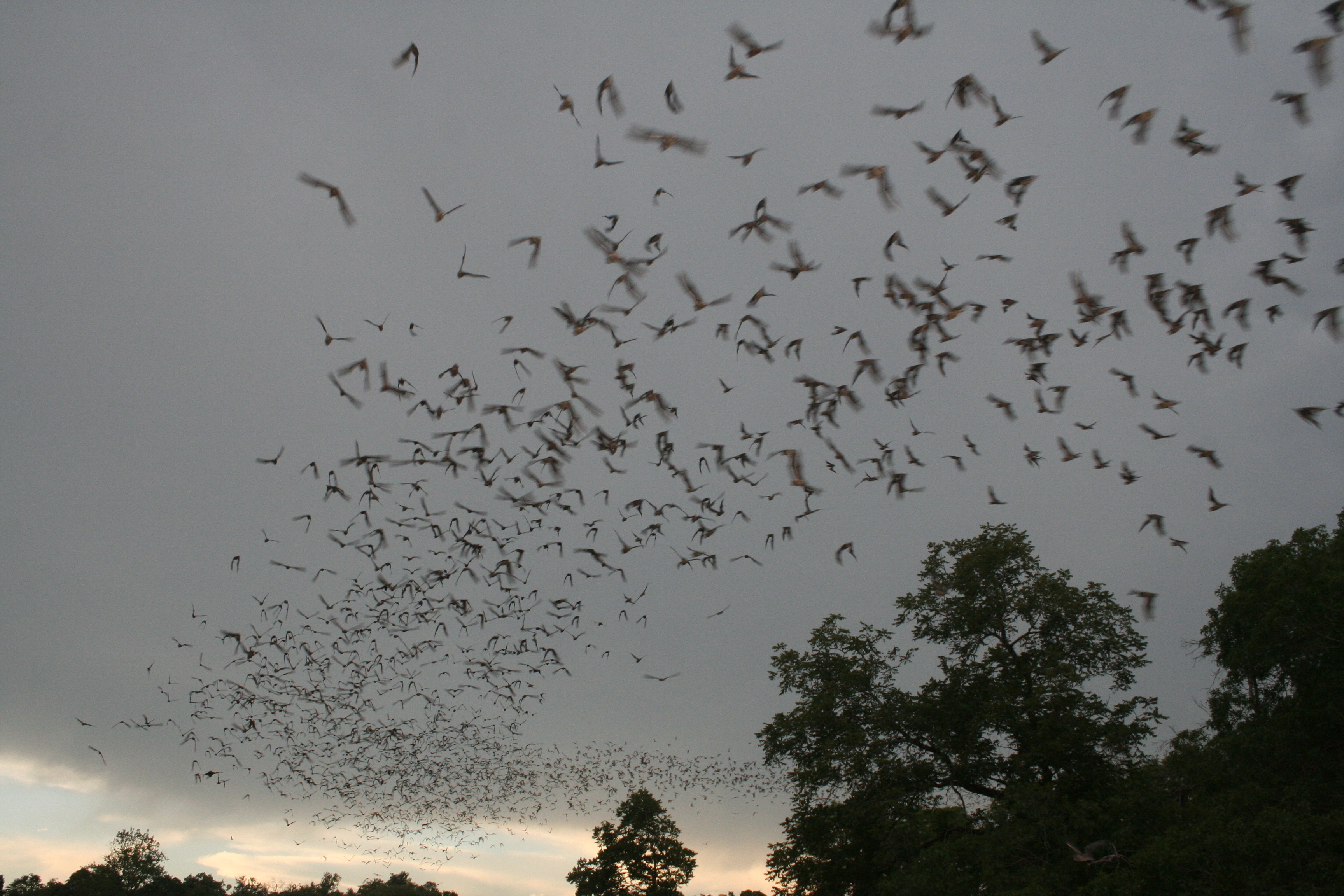 photo credit: USFWS/Ann Froschauer